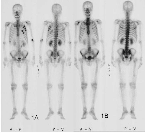 A) 99mTc-HMDP bone scintigraphy showing many lesions with accumulation in the left ribs, which were diagnosed as multiple costal metastases. B) After chemotherapy with S-1 and CPT-11, the costal metastases have resolved..